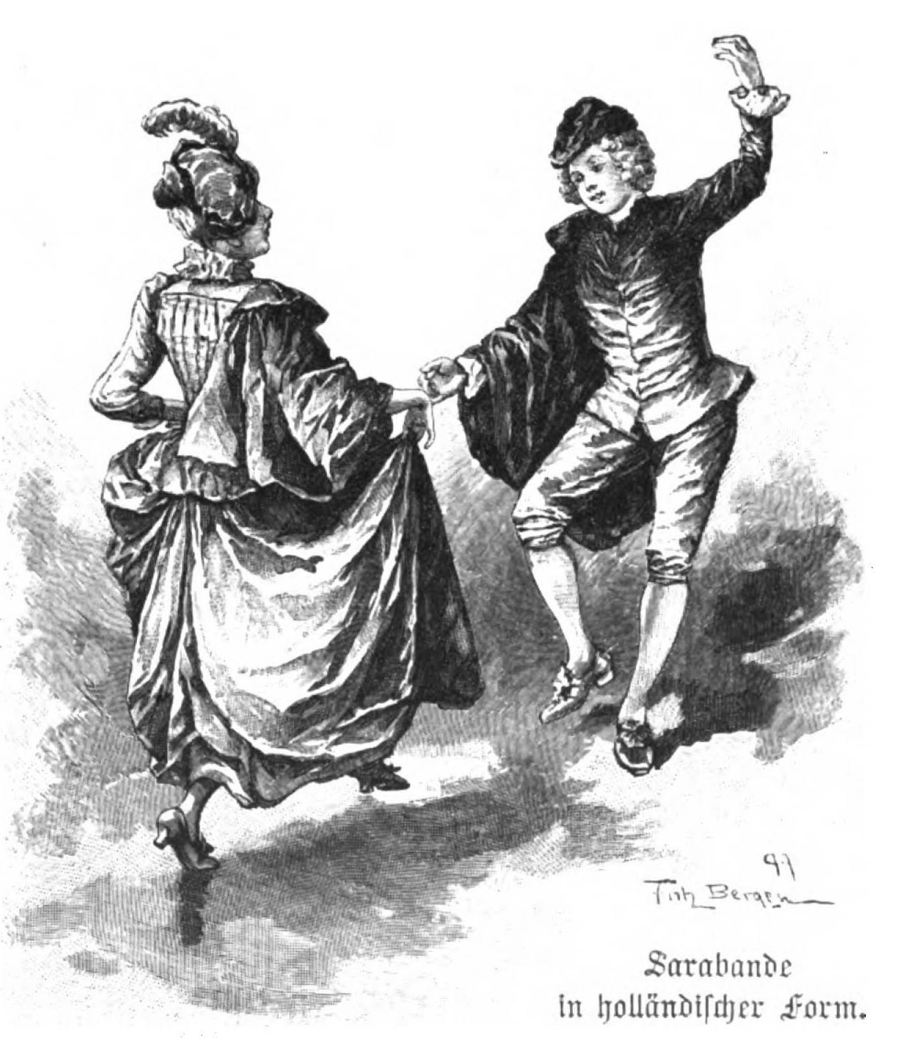 no caption